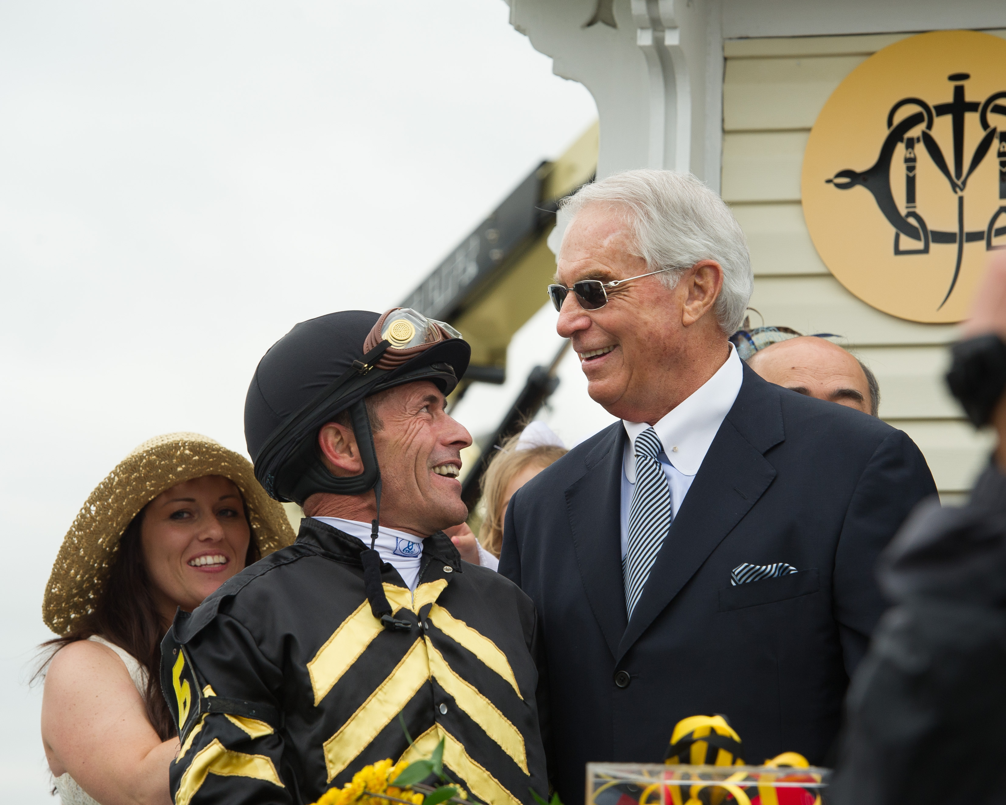 The 138th Annual Preakness photographed by Jay Baker at Baltimore, MD. Trainer D. Wayne Lukas (right) and jockey Gary Stevens in racing colors of Brad M. Kelley, the owner of Preakness winner Oxbow.